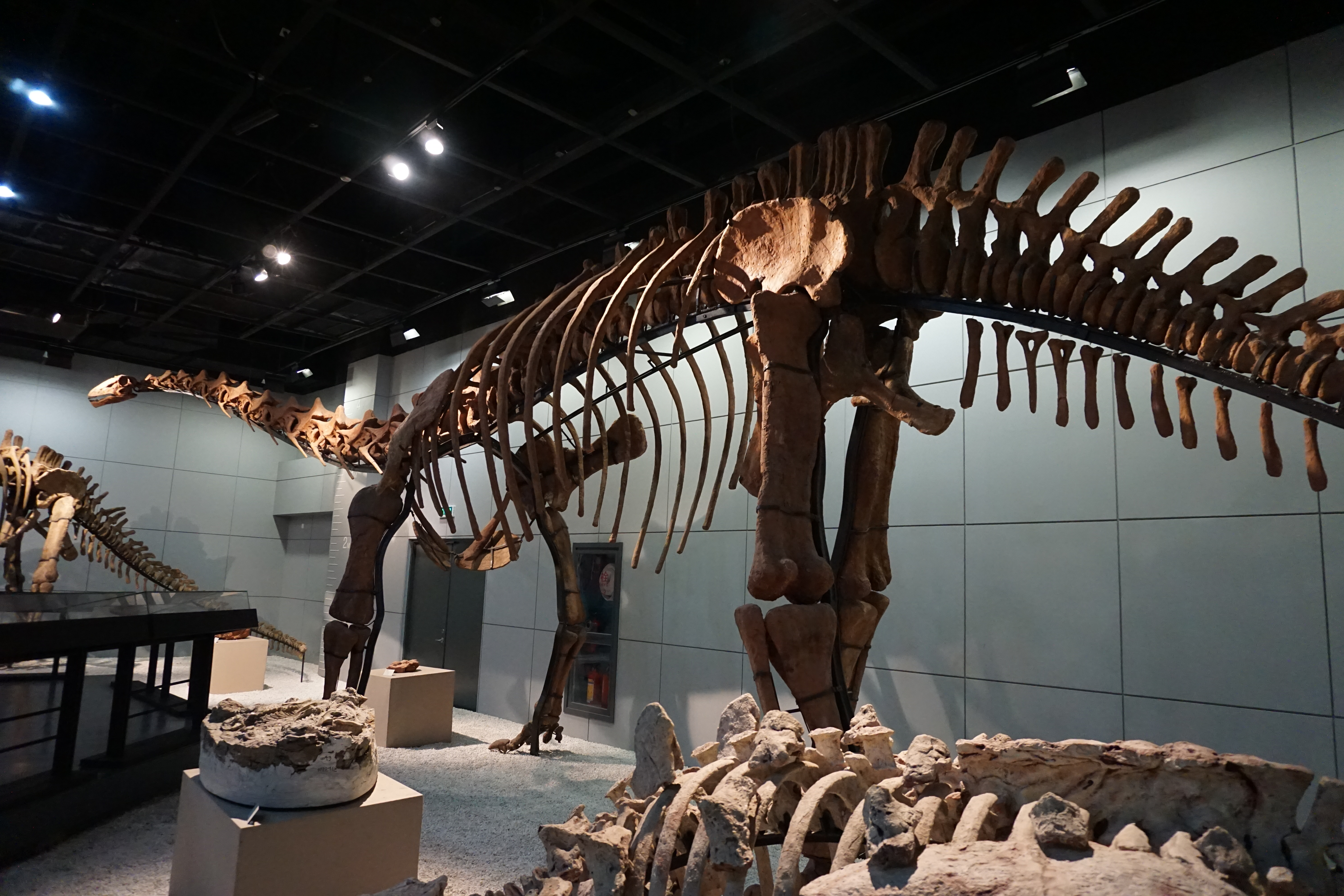 Jiangshanosaurus lixianensis (photoed in Zhejiang Museum of Natural History)